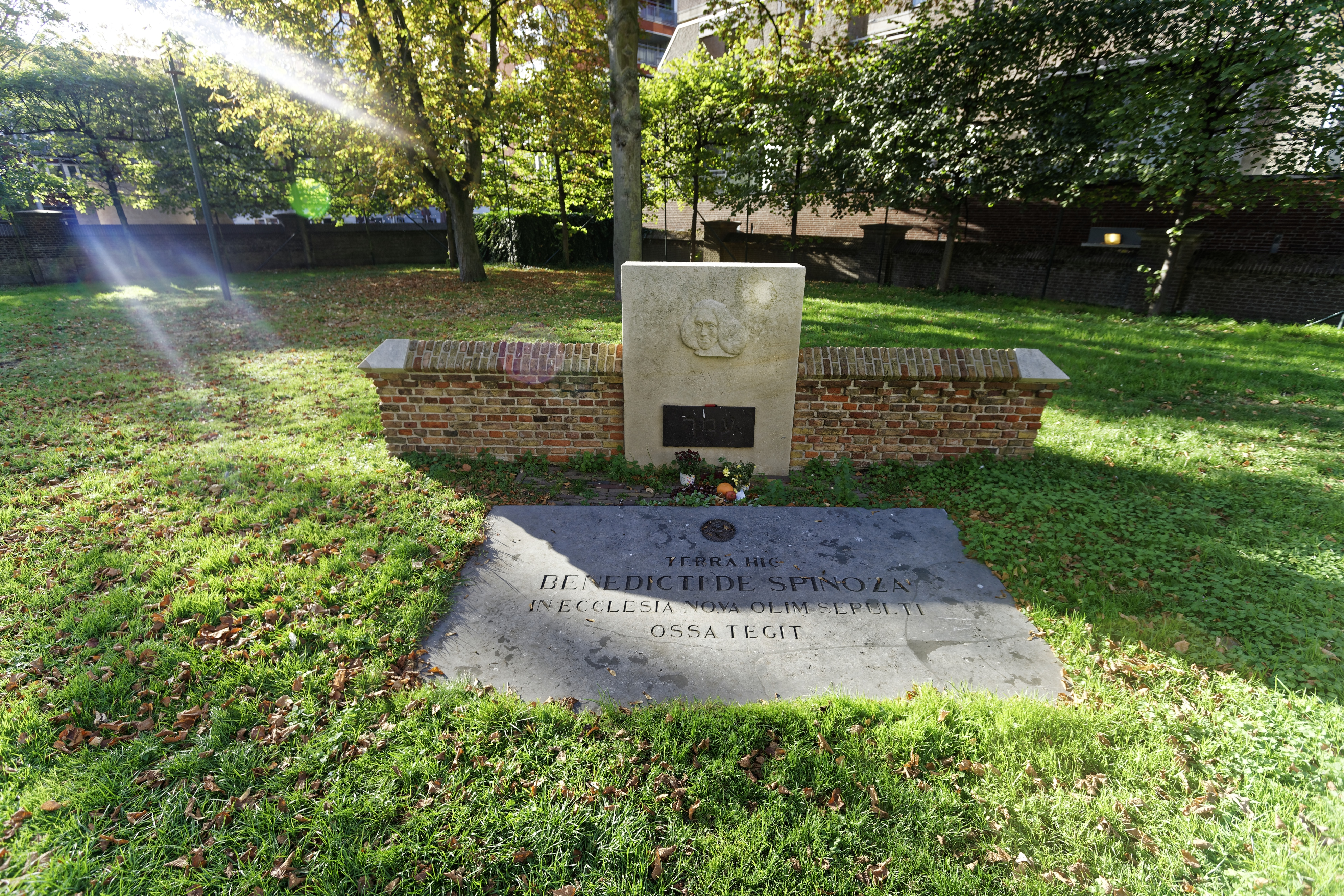 The Hague - Nieuwe Kerk - Burial Monument to Benedict de Spinoza. Latin text: Terra hic Benedicti de Spinoza In ecclesia nova olim sepulti Ossa tegit (Translation: This earth covers the bones of Benedictus de Spinoza that once were buried in the Nieuwe Kerk (New Church).)